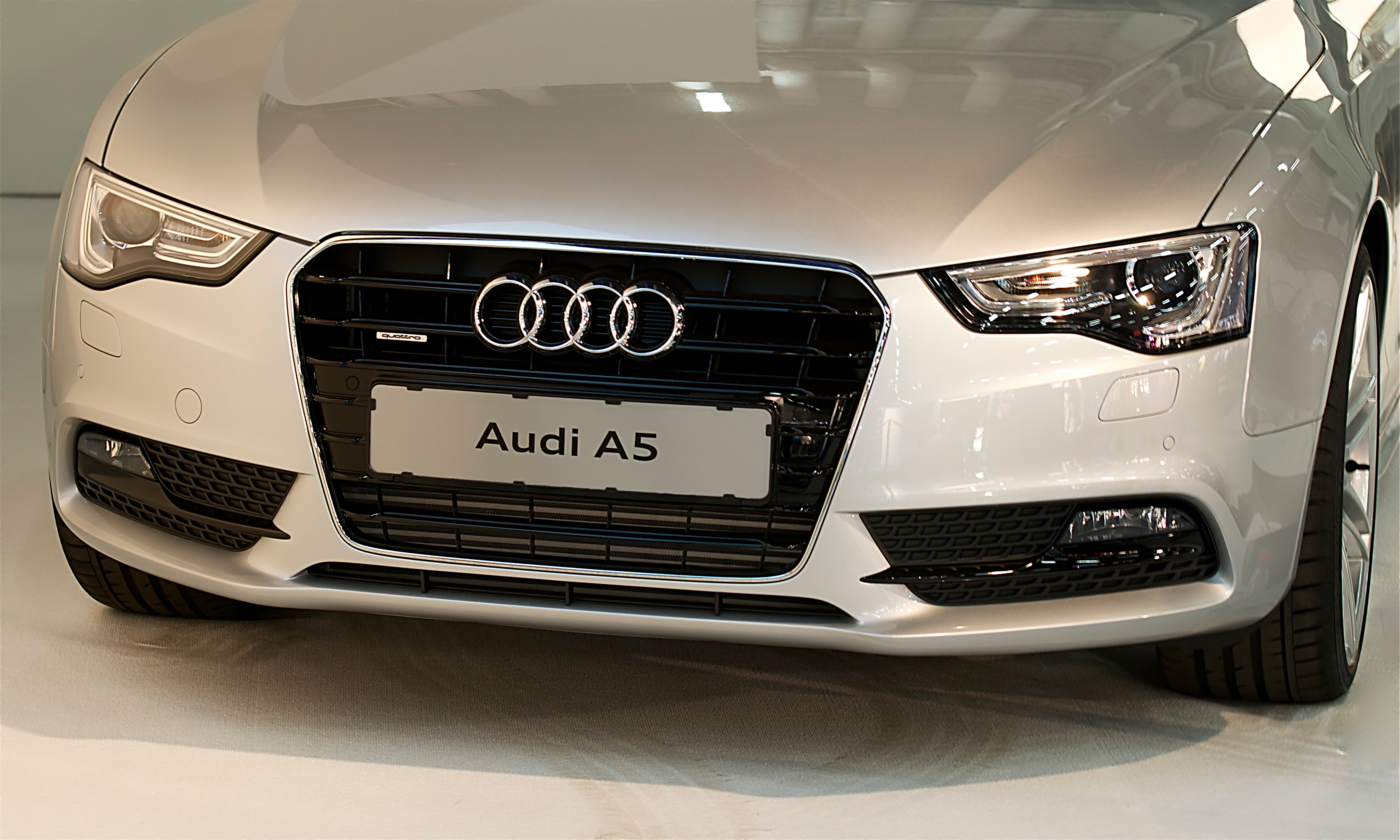 Audi A5, front.